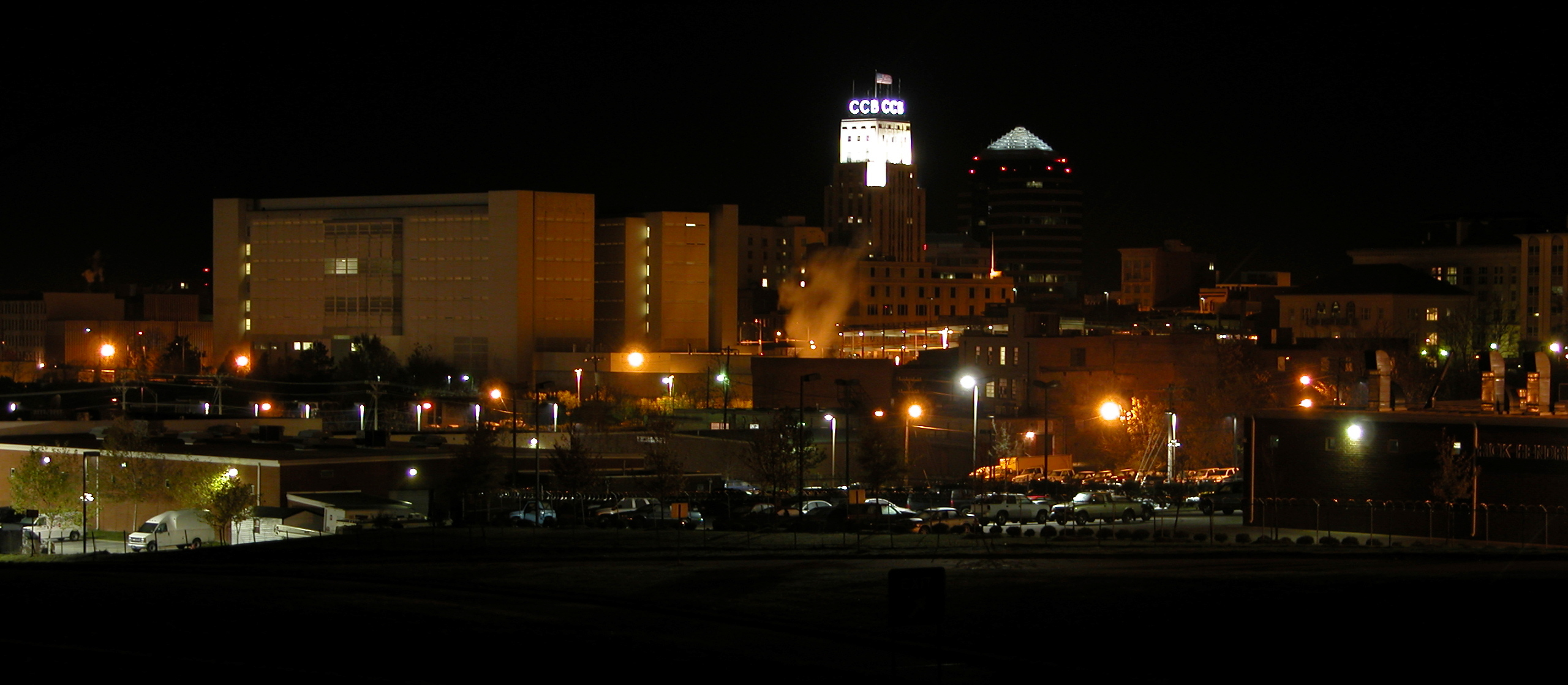 Downtown Durham, North Carolina seen at night from the Fayetteville Street bridge over NC 147.